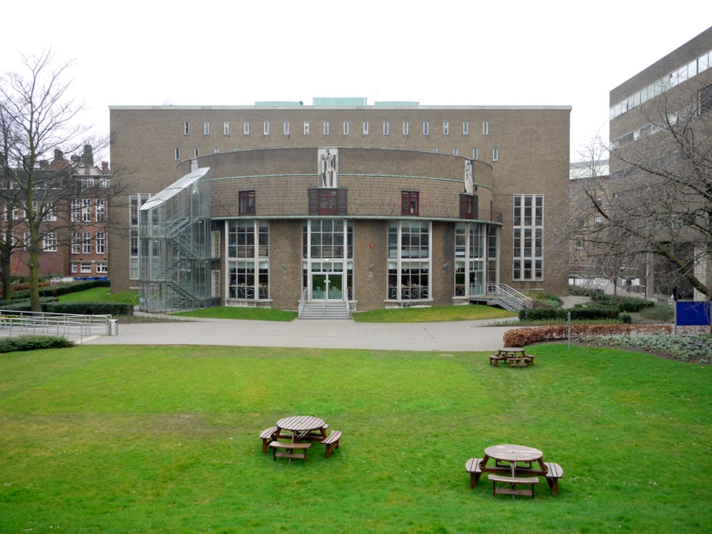 Claremont Quad and the Old Library, Newcastle University The semi-circular extension to the Old Library with its upper mosaic decoration was built in 1959 and now houses the Research Beehive, a seminar and conference facility